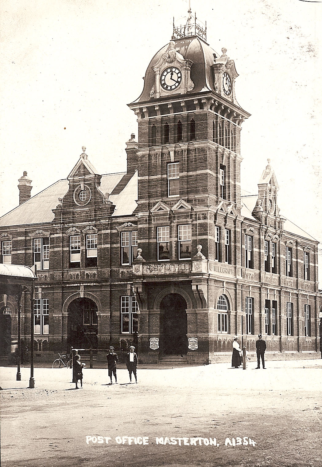 1912 Post Office Masterton Building opened 9 May 1900 in the unavoidable absence of Right Hon Mr Seddon. builders Coradine and Whittaker. In addition to letters telegrams money order and savings bank business and telephones the responsibilities of the Post Office included: Government Life Insurance Collection of Land and Income Taxes Game licences, livestock fees, machinery fees, money for NZ Consols, money for the Public Trustee and Advances to Settlers Office, it pays money on behalf of The Treasury and like services including payment of old age pensions. source